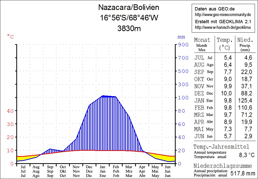 Climate chart in the Walter and Lieth format, metric, °Celsius und millimeters, made with Geoklima 2.1